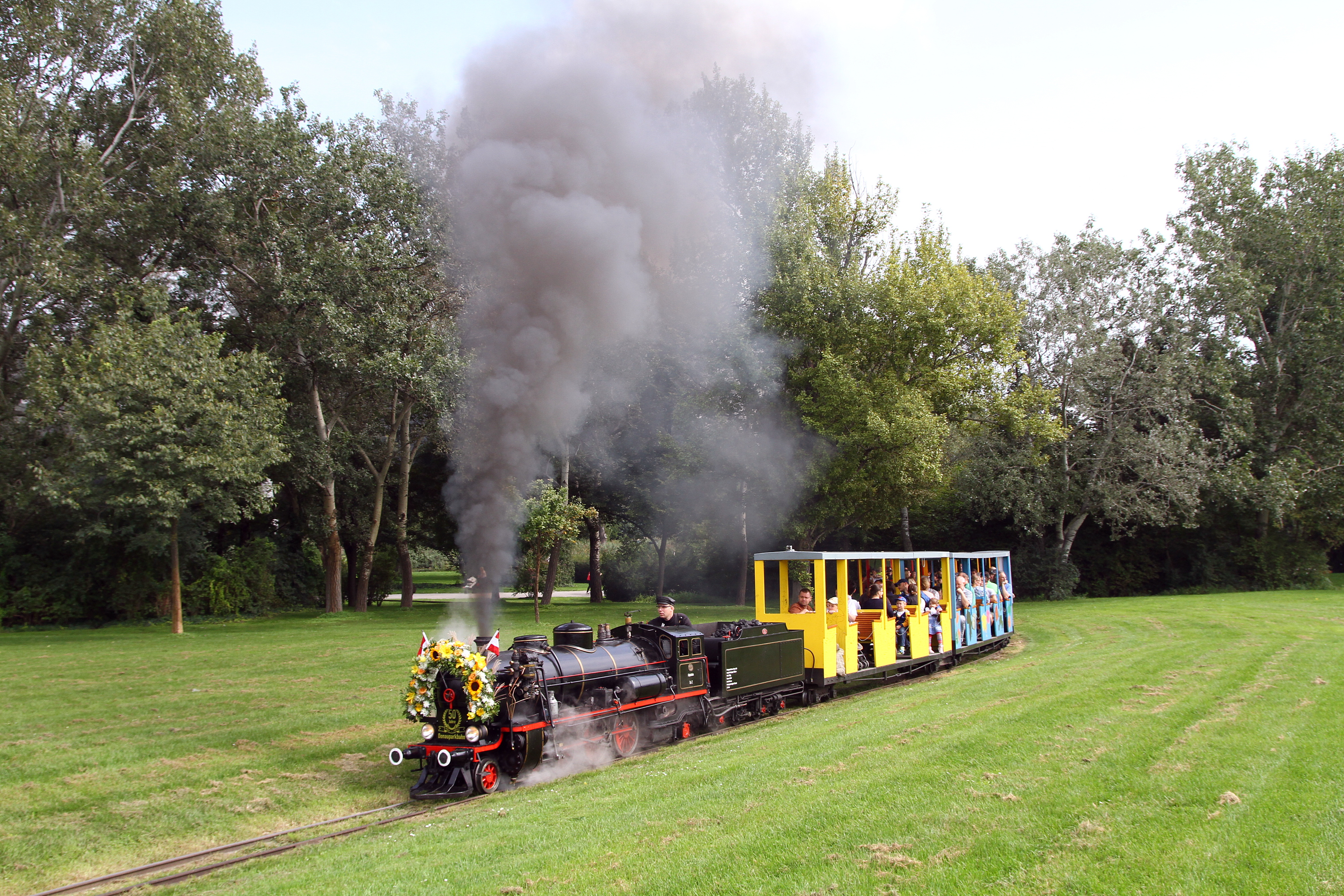 Liliputbahn Da2 with anniversary train on the Donauparkbahn. Between lake Irissee and the Danube tower the engine has a rather steep gradient to negotiate.